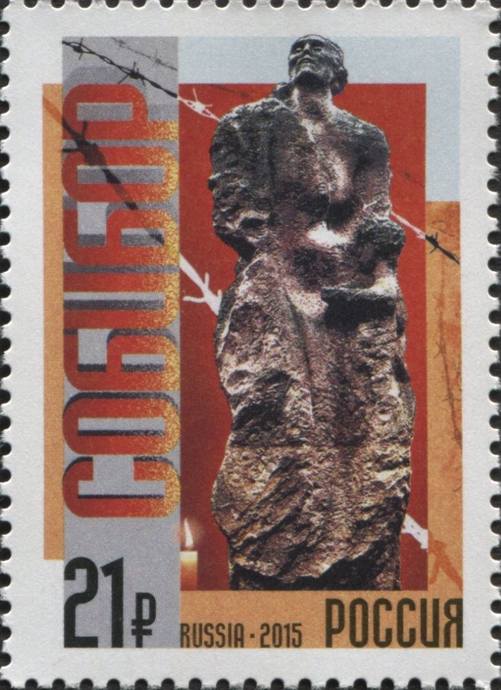 70th Anniversary of victory in the Great Patriotic War of 1941 - 1945, Uprising in the Sobibór Death Camp.